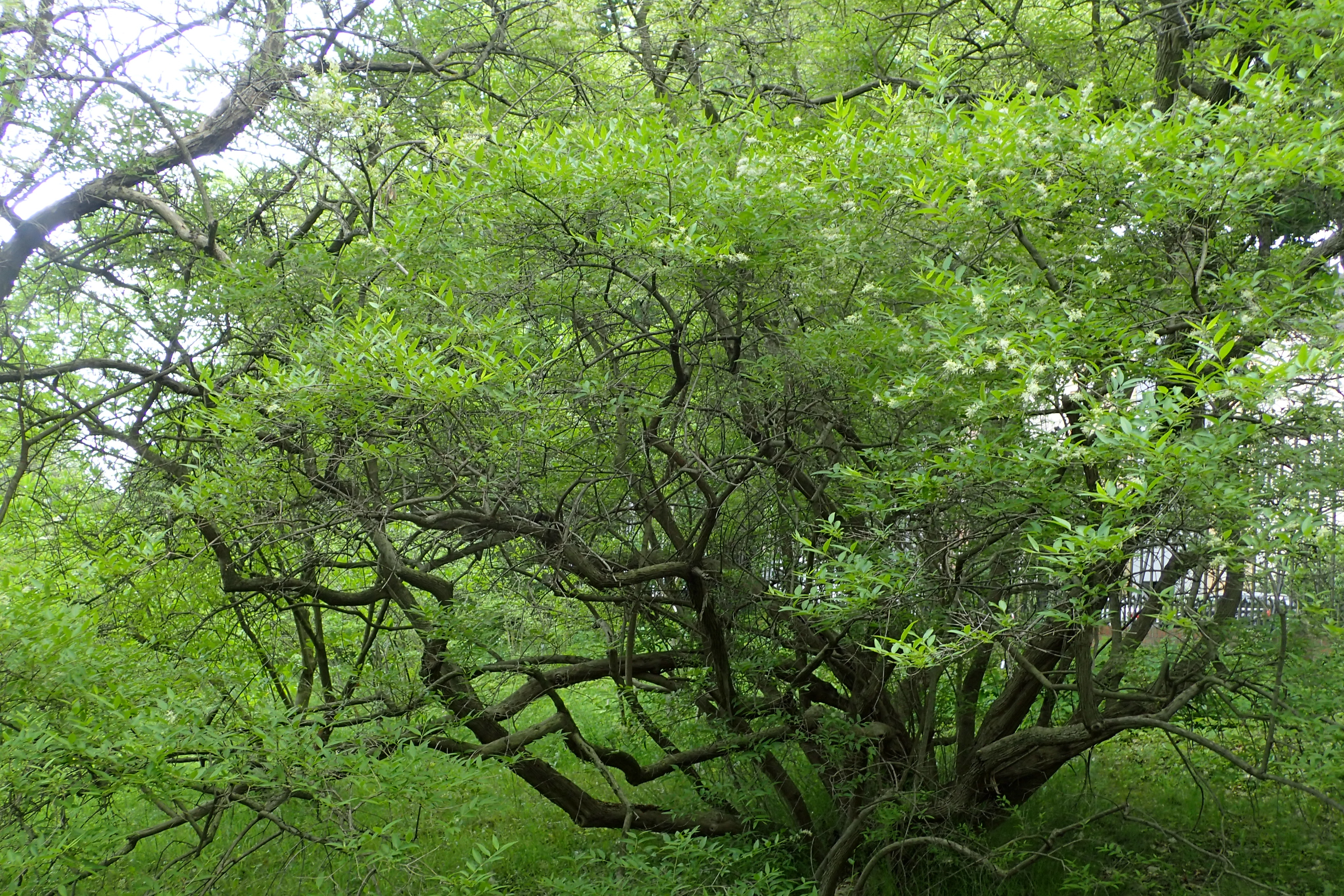 Fontanesia phillyraeoides in the Botanischer Garten, Berlin-Dahlem